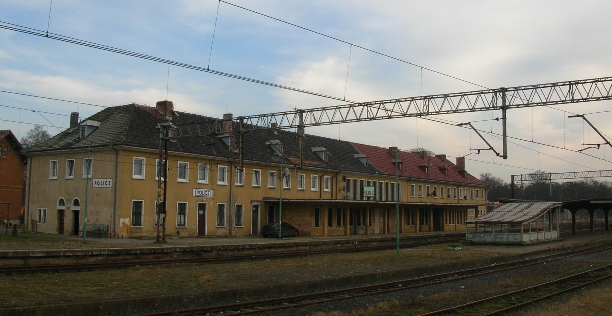 The Main Railway Station in Police, a town in Pomerania, Poland / Police, Dworzec Główny